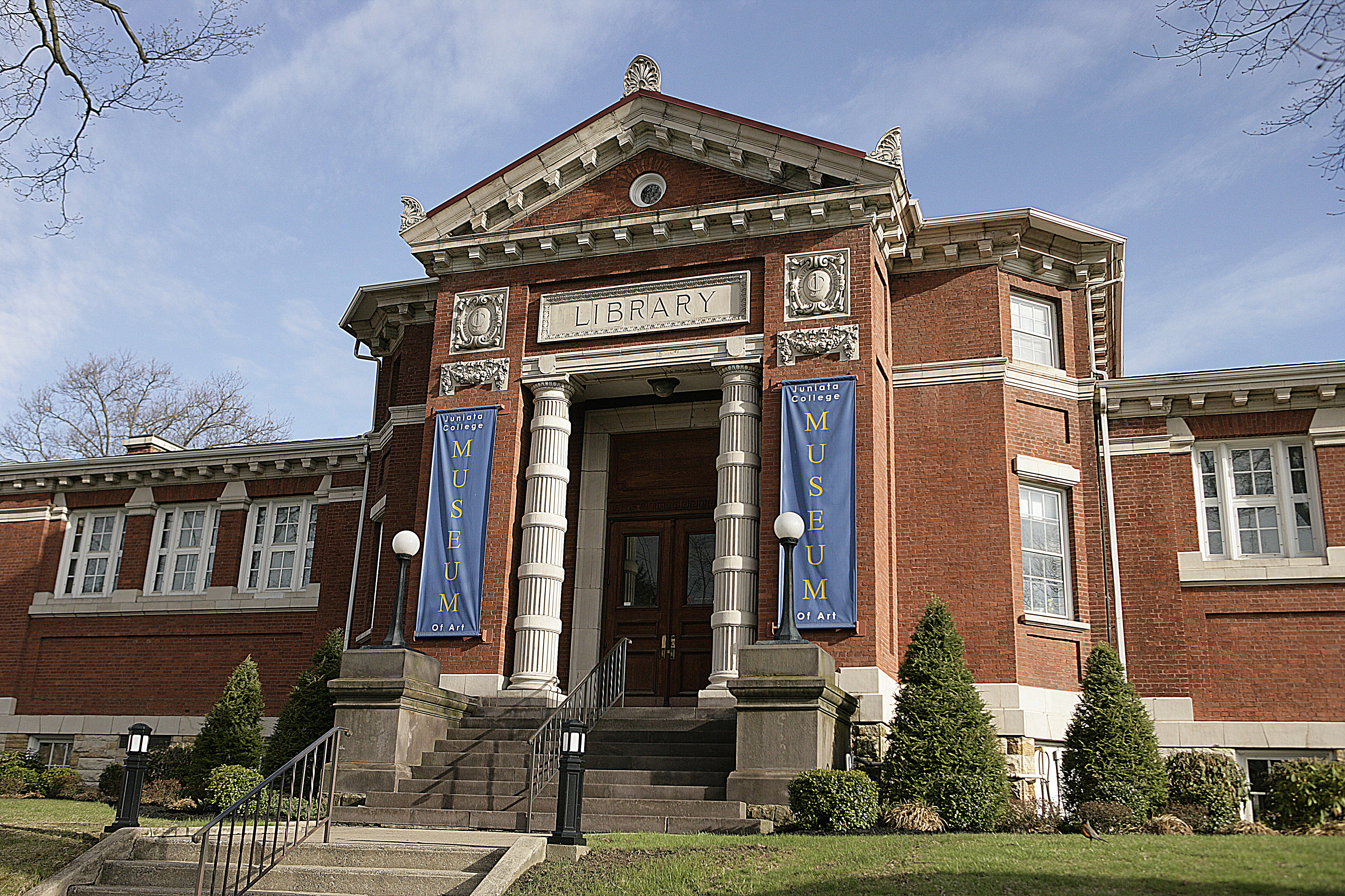 Building on Campus